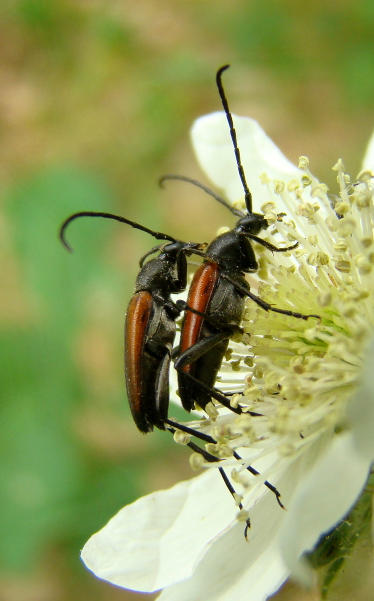 Stenurella melanura couple